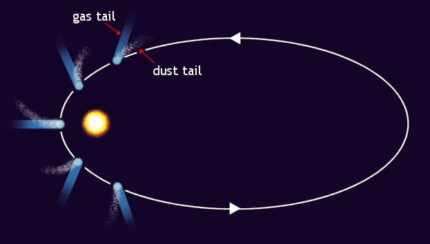 A labelled diagram of the highly elliptical orbit of a comet.